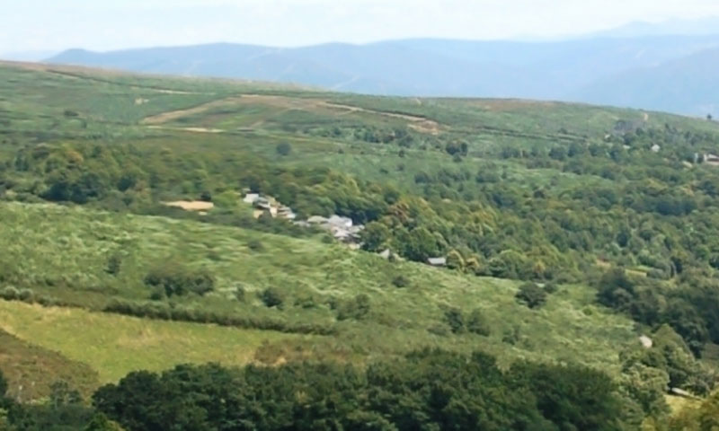 Serra de As Cabanas (Ourense)